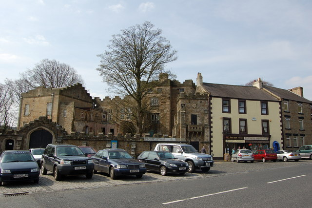 Stanhope Castle